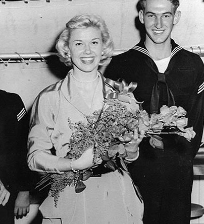 Doris Day an Bord der USS Juneau Lizenz: Beschreibung: Waiting on the dock to greet the anti-aircraft cruiser U.S.S. Juneau on its recent return to Long Beach, Calif., from the Far East was the lovely Warner Brothers' star, Doris Day. ... This photo is not dated, but was published in "All Hands" magazine's January 1953 issue. USS Juneau (CLAA-119) had two Korean War tours, returning to Long Beach on 1 May 1951 from the first and on 5 November 1952 from the second.